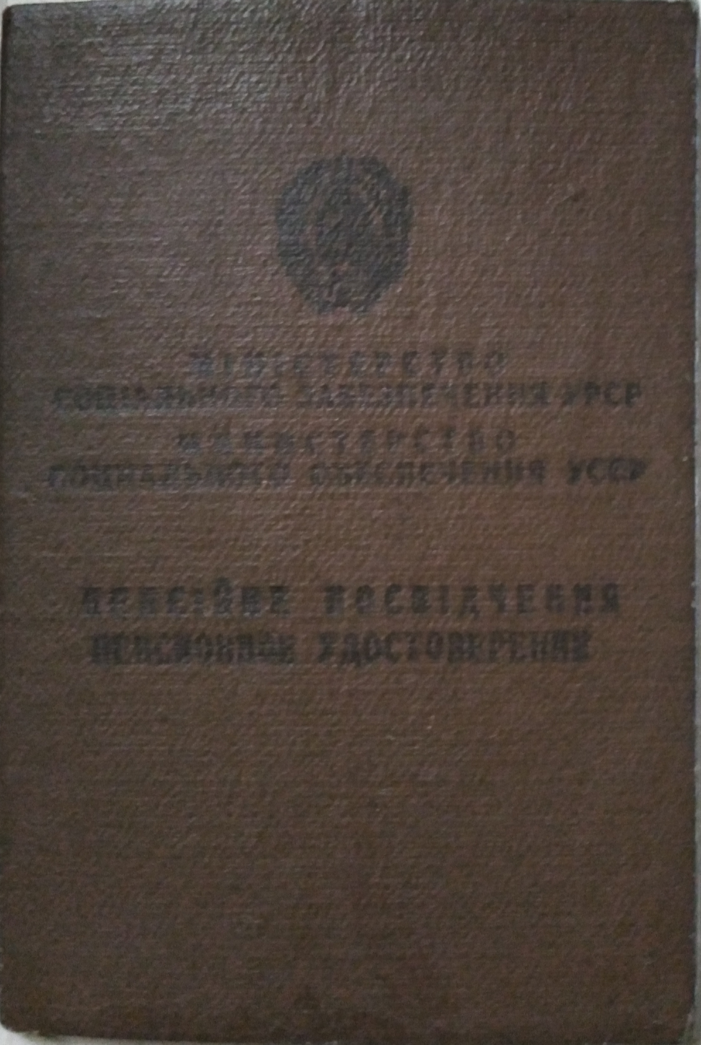 Cover of pension certificate. Ministry of Social Security of the UkrSSR. The type of certificate that was current at the time of Ukraine's declaration of independence (1991).